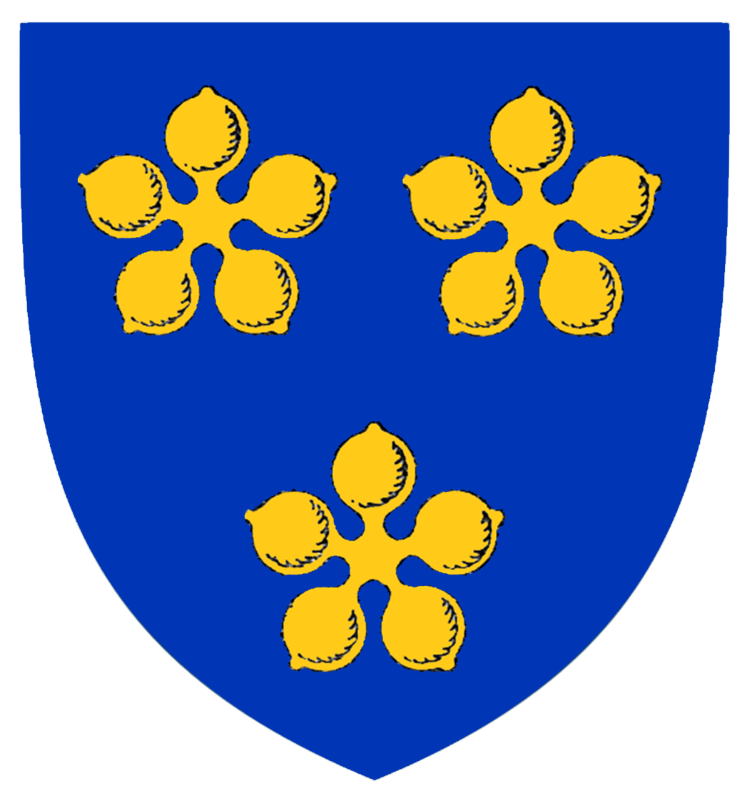 Shield of arms of The Lord Bardolf